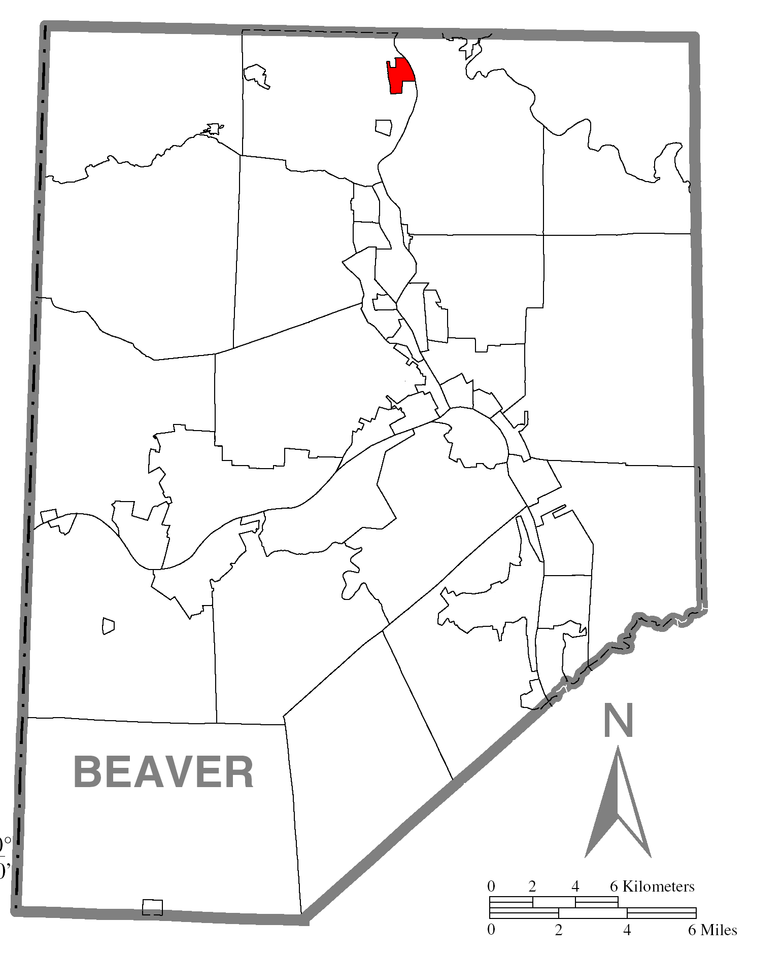 A map of Beaver County showing Koppel, Pennsylvania (alternate) highlighted on the map.